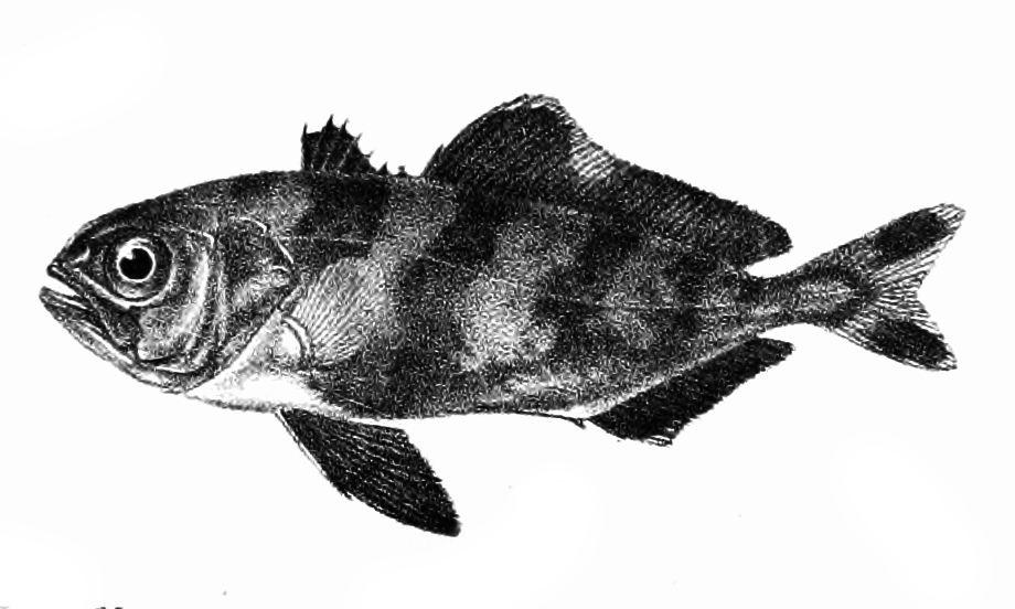 The species names / identity need verification. The original plates showed the fishes facing right and have been flipped here. Seriola nigro-fasciata